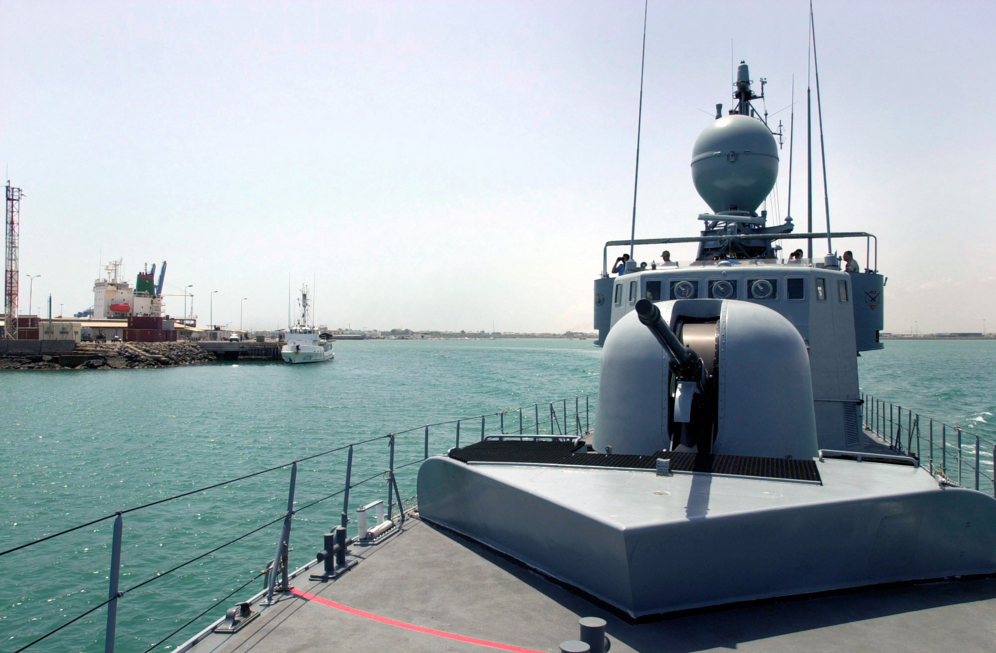 The German Patrol Boat BUSSARD (Type 143 Albatross Class, P6114), makes her way out of Djibouti Harbor to continue the war on terror in the Middle East. The German boat deployed in the region supporting Operation Enduring Freedom.